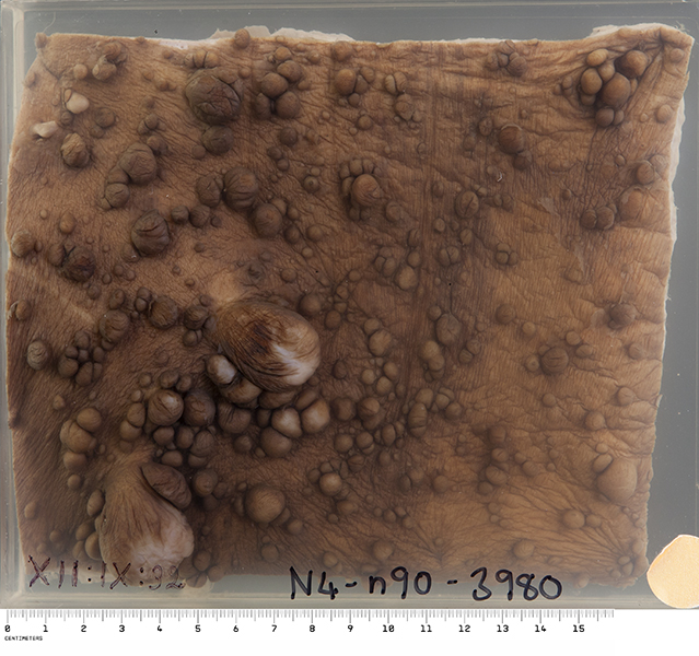 Photograph of specimen from the UCT Pathology Learning Centre teaching collection. Clicnical data: This patient died of secondary neurofibrosarcomata in the lungs, the result of malignant transformation of a neurofibroma. No other clinical details are recorded. Macroscopy: Multiple pedunculated neurofibromata of the type seen in this specimen were present on the skin of the entire body. Similar tumours were also present on the nerves of the viscera.